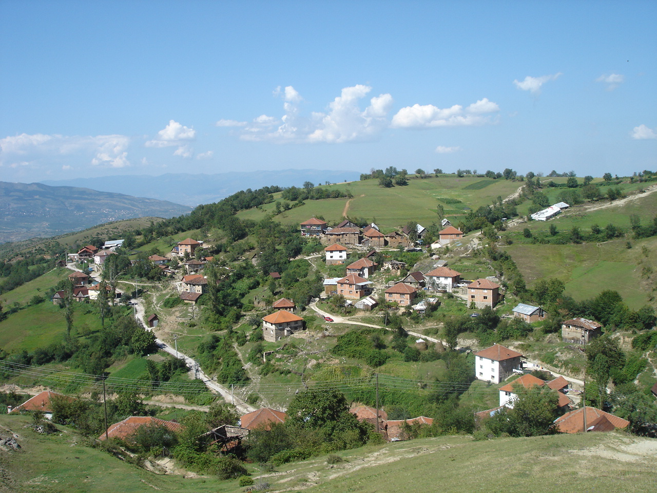 village of Cvetovo, near Skopje, Macedonia